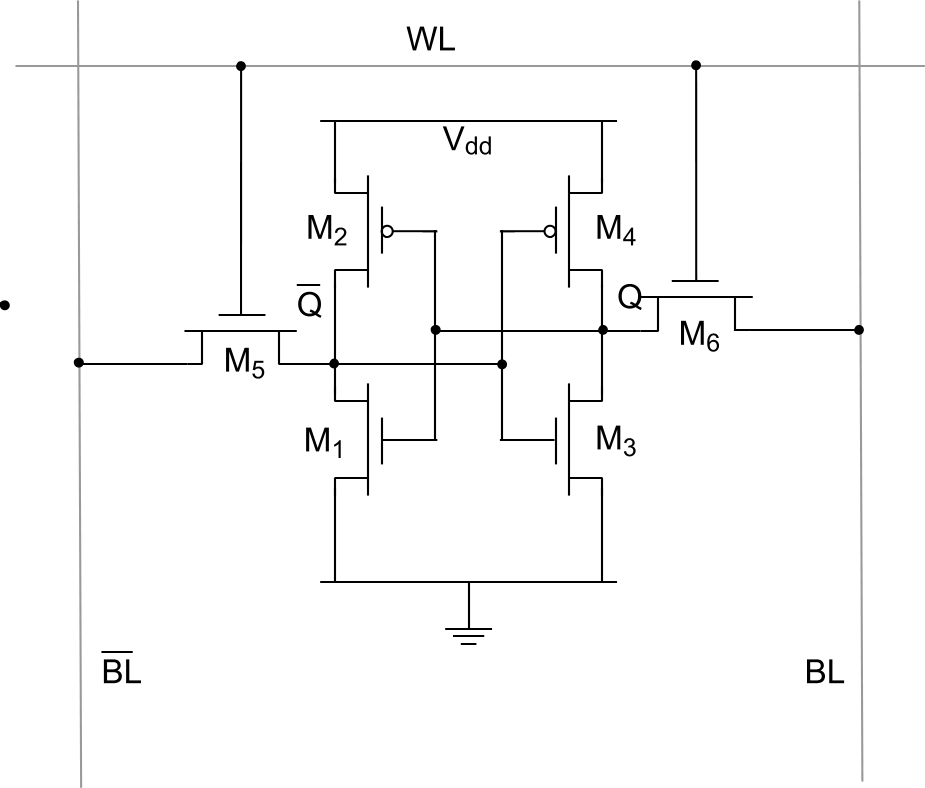 A six-transistor CMOS SRAM cell.